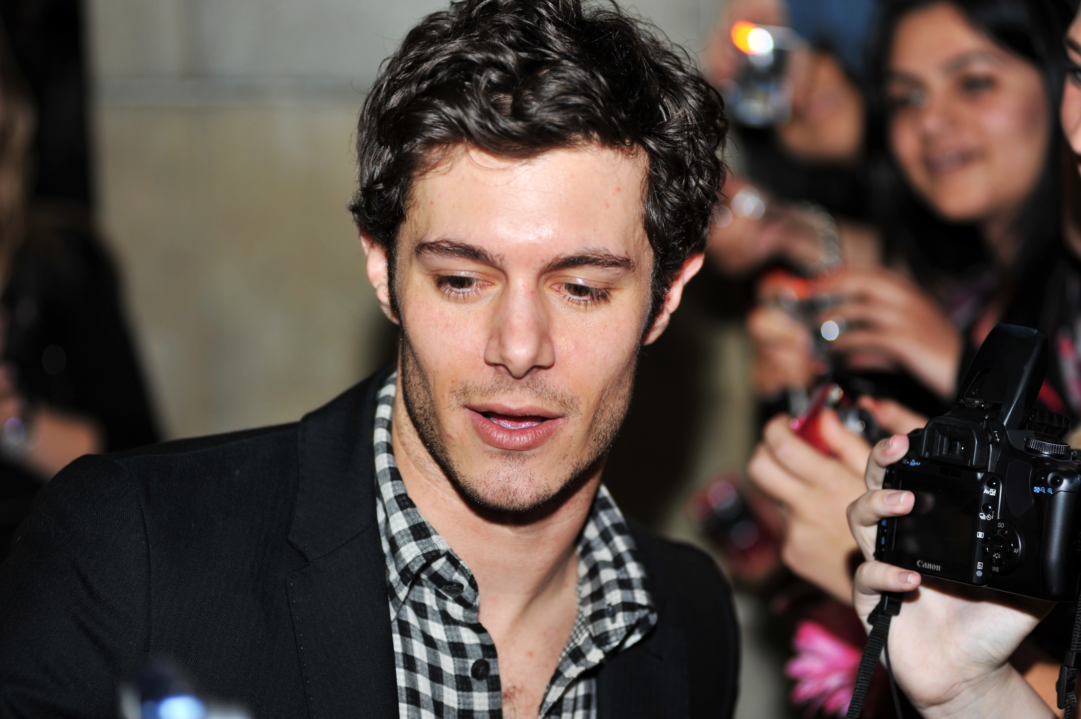 Adam Brody @ Jennifer's Body screening